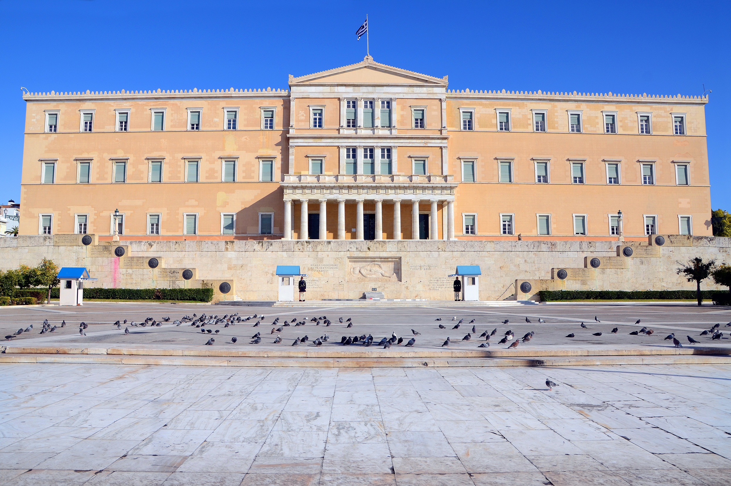 Η Βουλή των Ελλήνων, Δευτέρα 13 Φεβρουαρίου 2012.